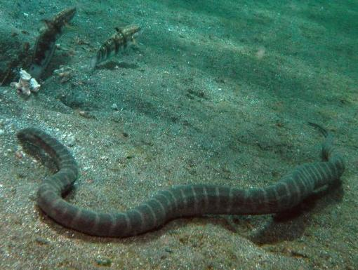 photo sea snake